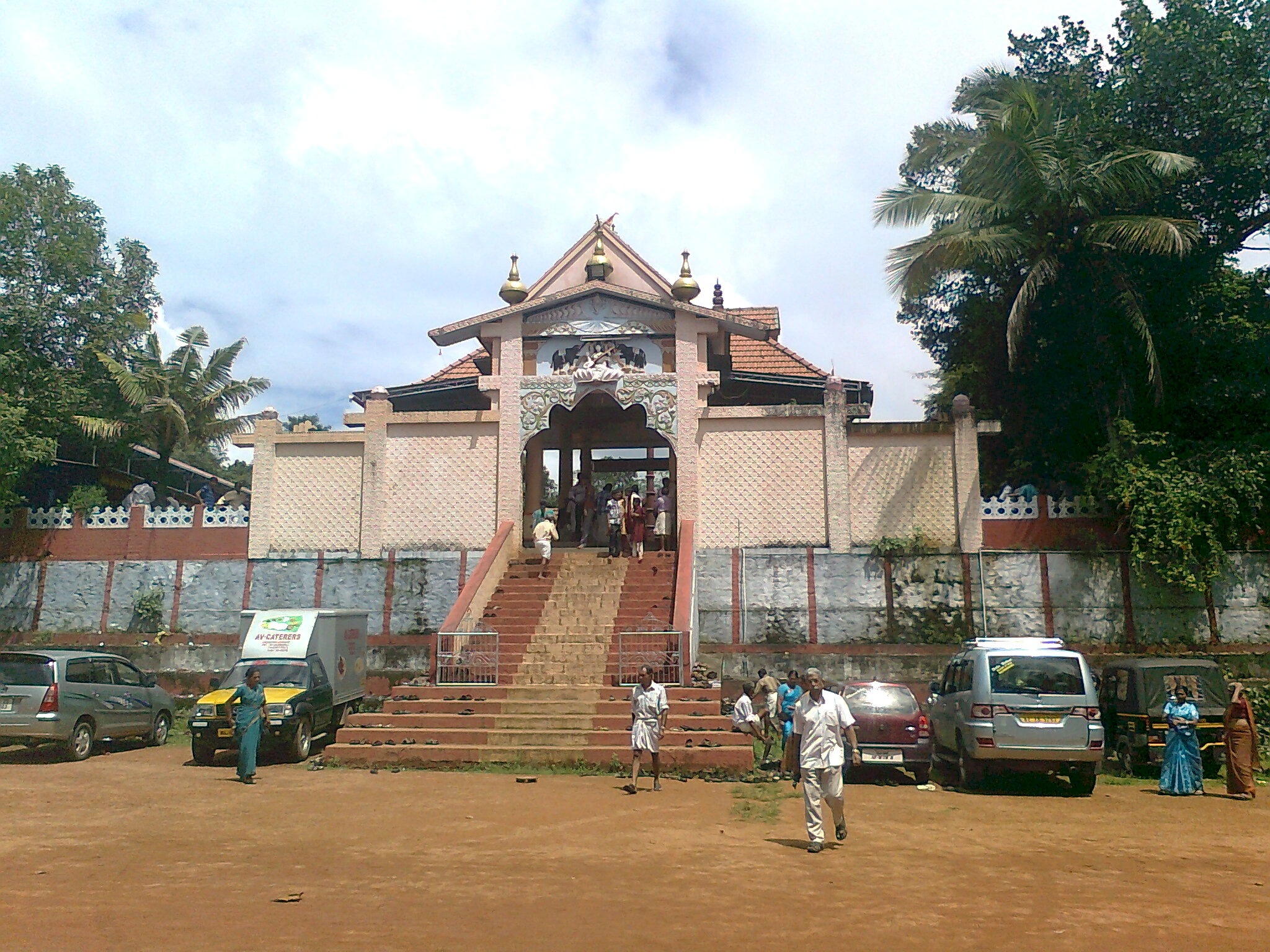 Front view of Champakara Devi Temple, Kerala.